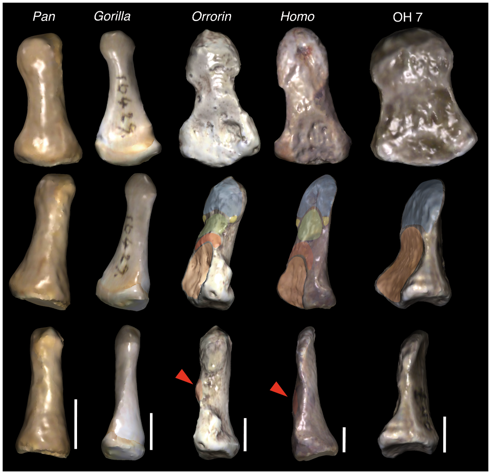 Morphological comparisons of pollical distal phalanges in African apes, extant humans and selected hominins.Specimens are showed in palmar (top), oblique proximopalmar (middle) and lateral (bottom) views, and scaled to the same length to easily visualize the morphological differences. The main features related to human-like precision grasping are indicated in the middle row, whereas the palmarly protruding insertion for the flexor pollicis longus has been further signaled in lateral view (red arrows in the lower row). Note that, although with several morphological differences, all the features related to refined manipulation in modern humans are already present in the late Miocene Orrorin. By the way, the OH 7 specimen, besides its odd overall proportions, neither shows a distinctive insertion for the flexor muscle, nor a compartmentalized digital pulp. All the phalanges belong to a right thumb. Scale bars represent 5 mm.